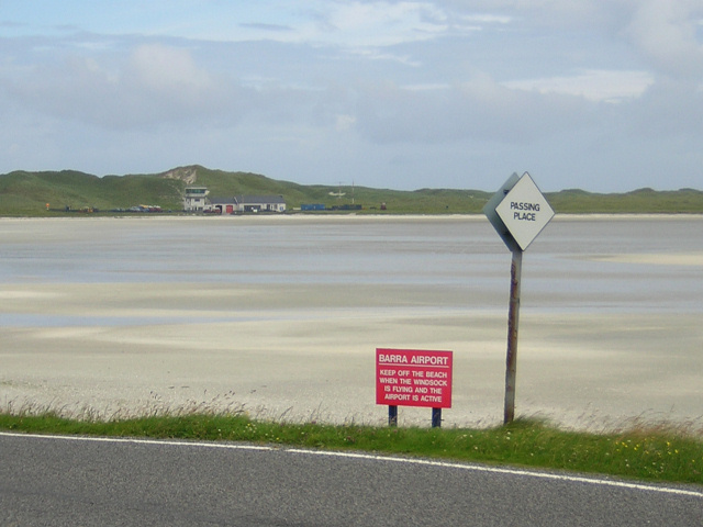 Barra Airport - Britain's only beach airport. This cockle strand is compacted to a concrete-like surface and is large enough to offer three "runways" for scheduled flights by British Airways. Granted, the flights are in small twin-engined aircraft.